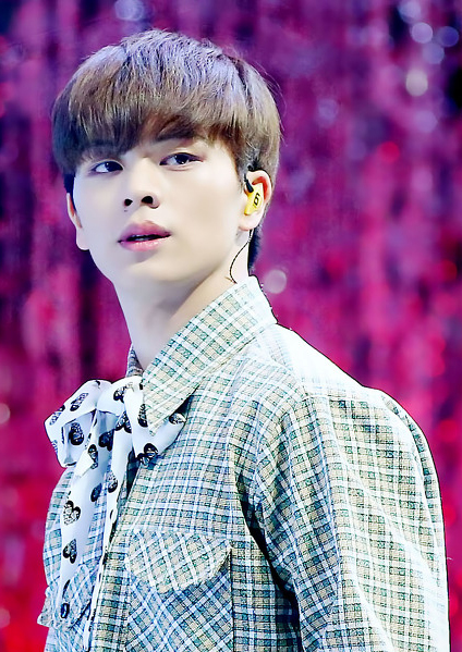 Yook Sung-jae at Cable TV Awards in March 2017